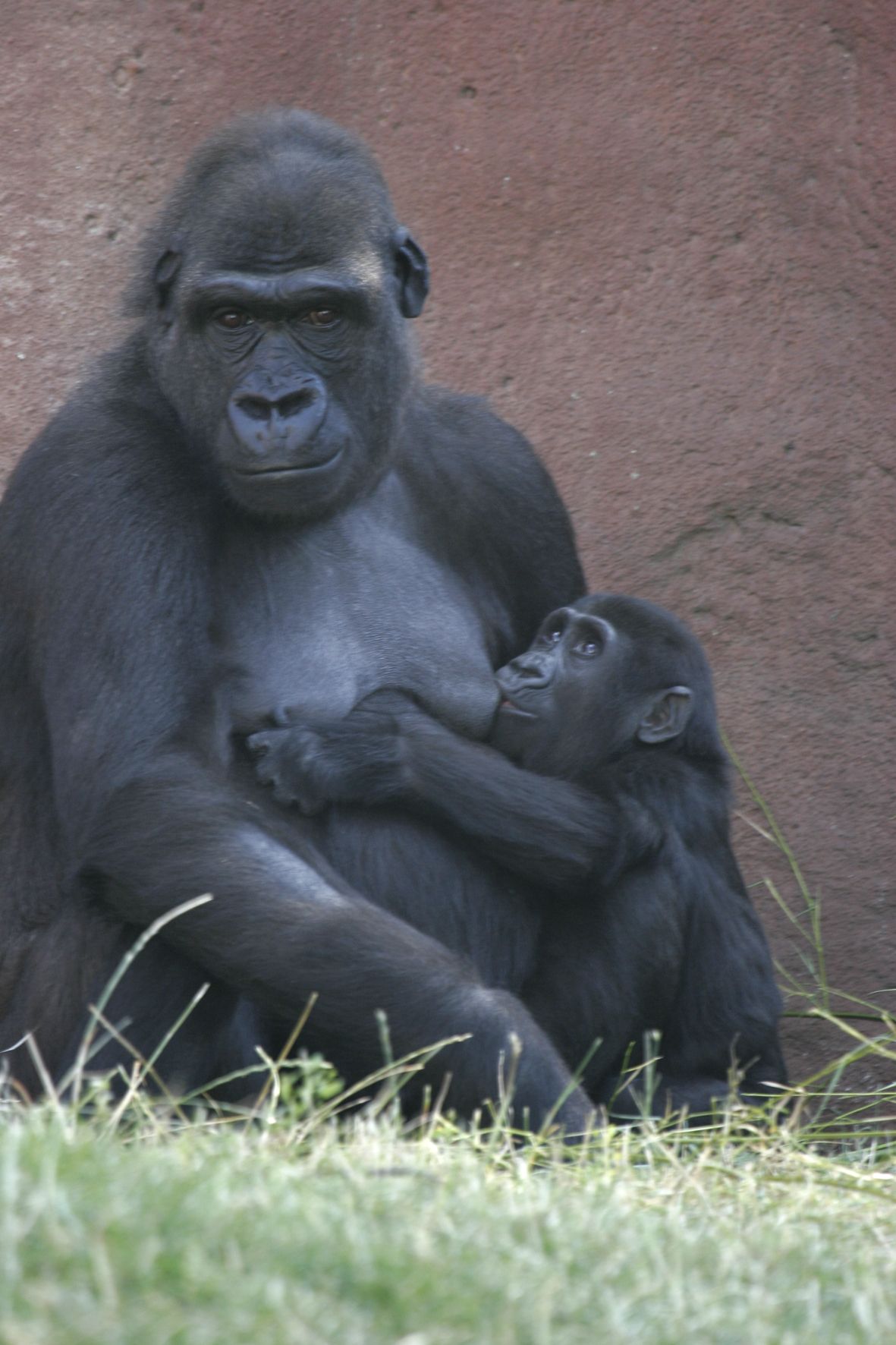 Moja - first gorilla born in captivity in ZOO Praha and Kijivu, her mother